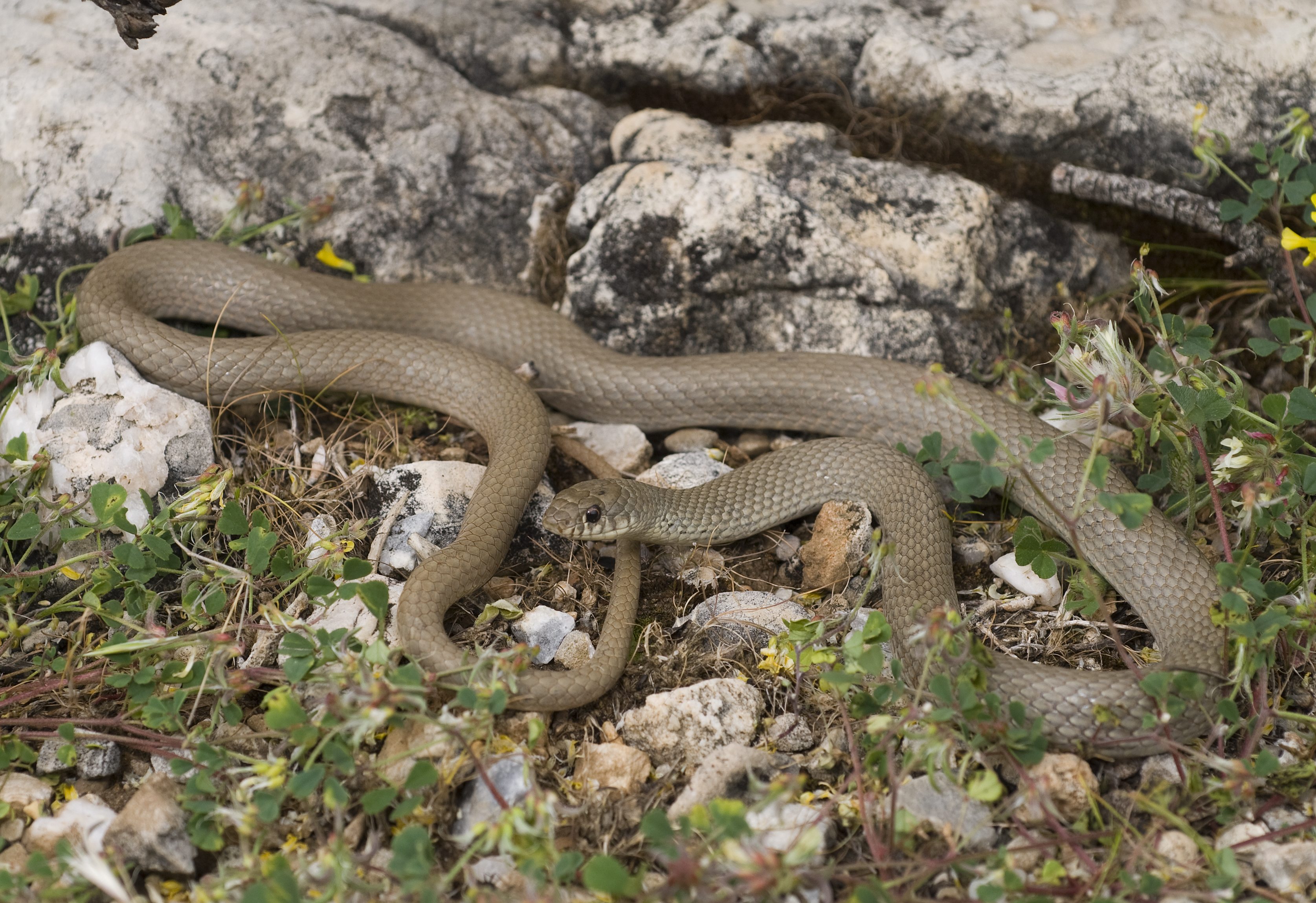 An Eirenis modestus at Samos, Greece.